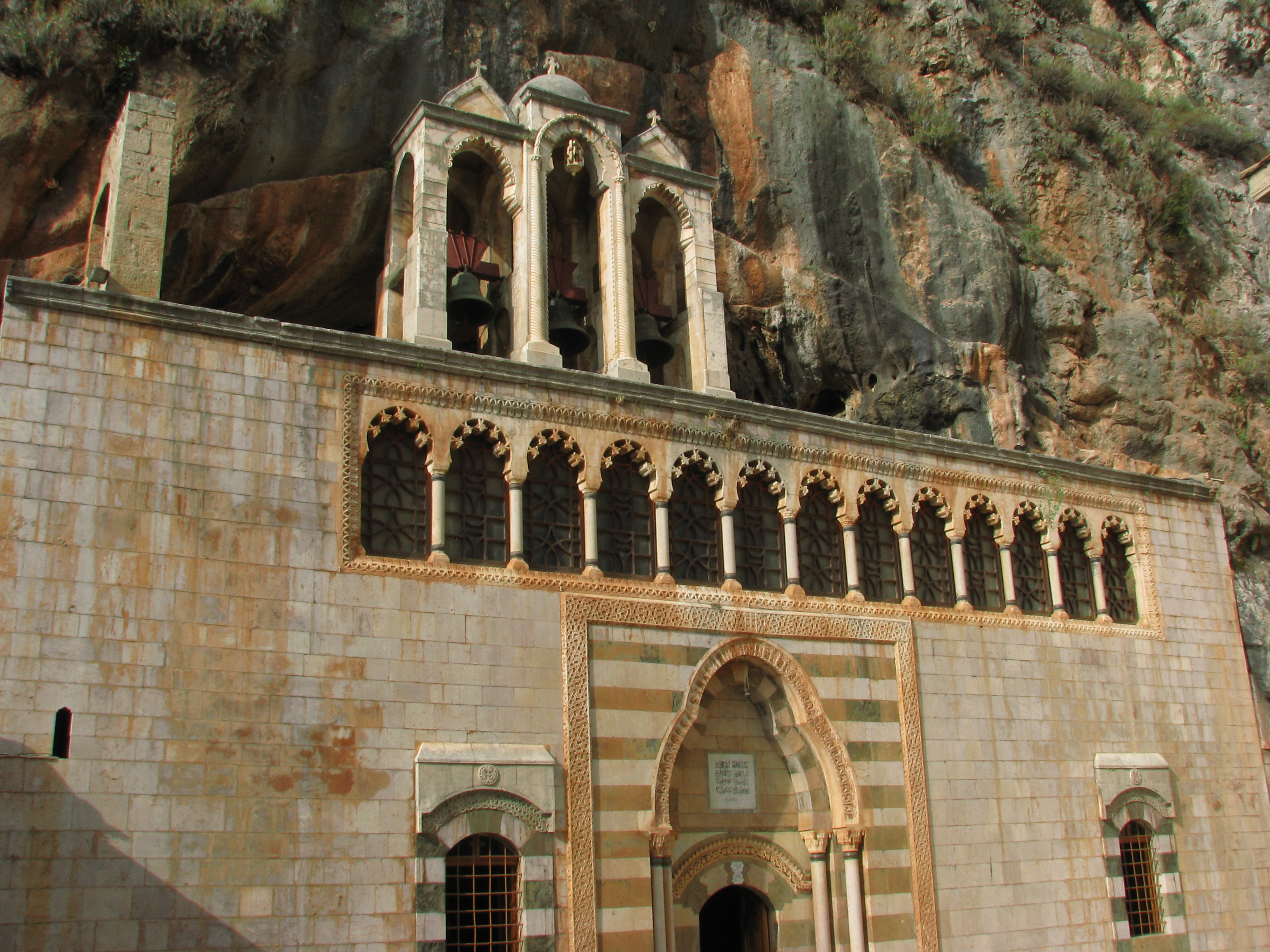 Church of Saint Anthony